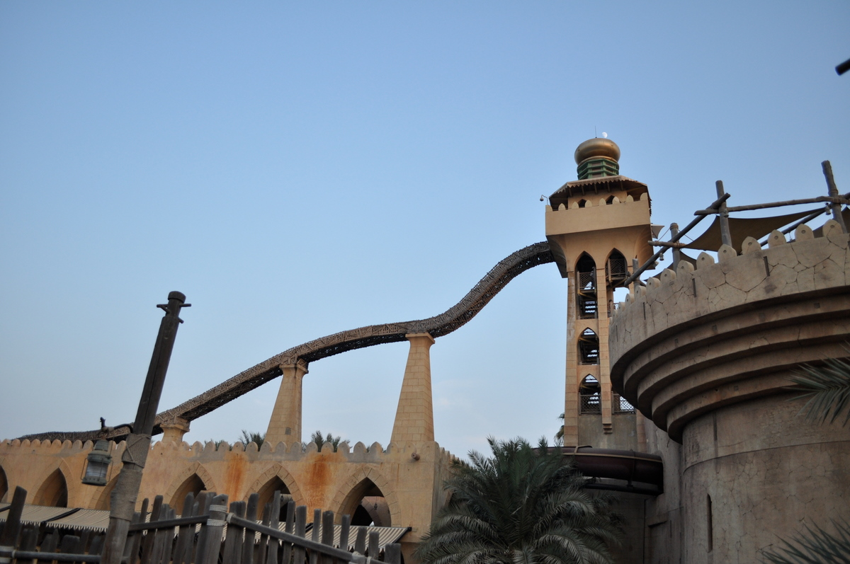 Wild Wadi Water Park Jumeirah Sceirah triple dip speed slide